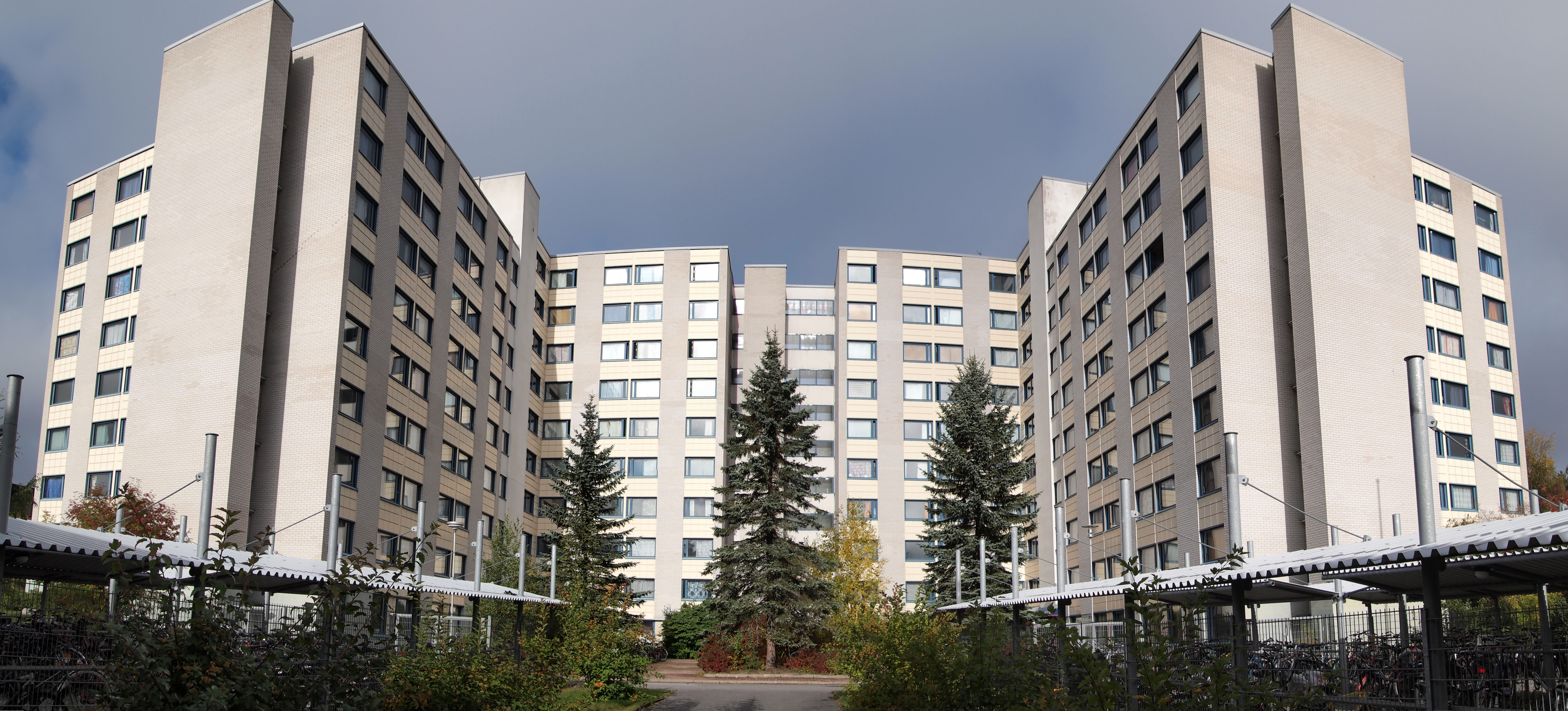 An apartment building on the street Emännäntie in Kortepohja student village, Jyväskylä. It's called "DDR".